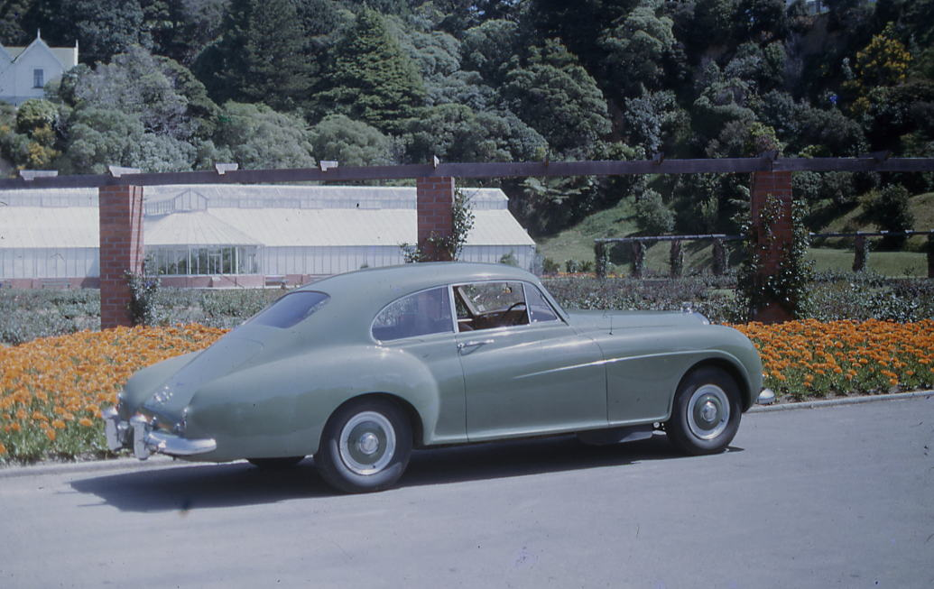 Bentley S1 Continental in New Zealand in the 1960's